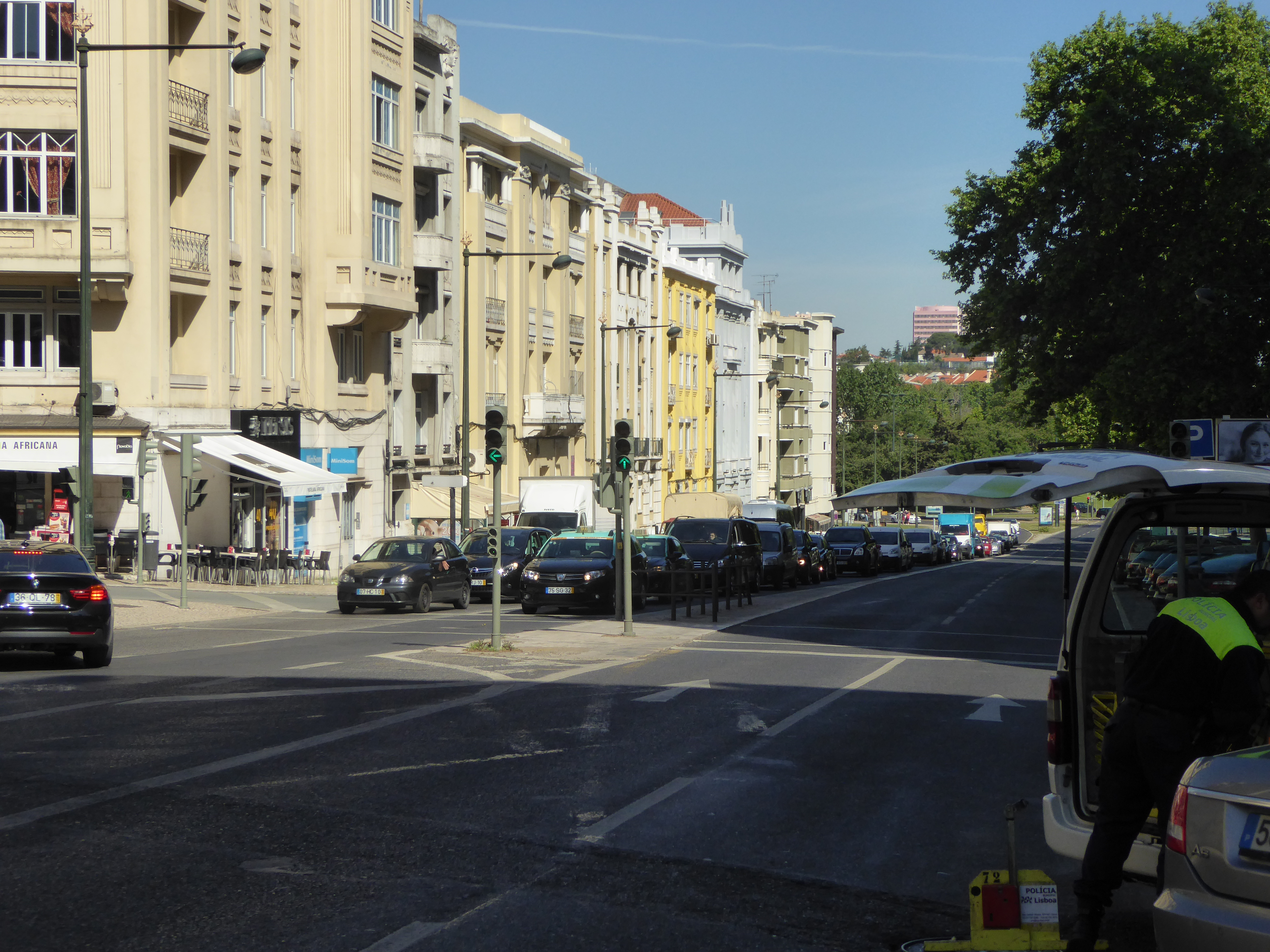 Avenida António Augusto de Aguiar, Lisbon, Portugal, May 2017